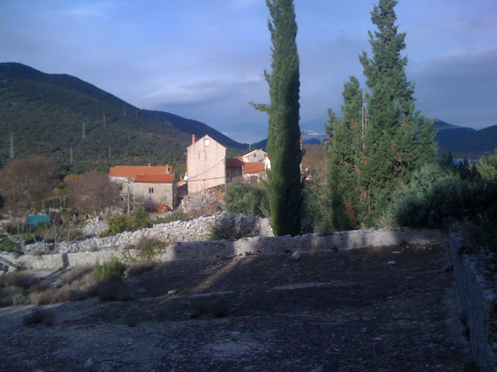 Zamaslina